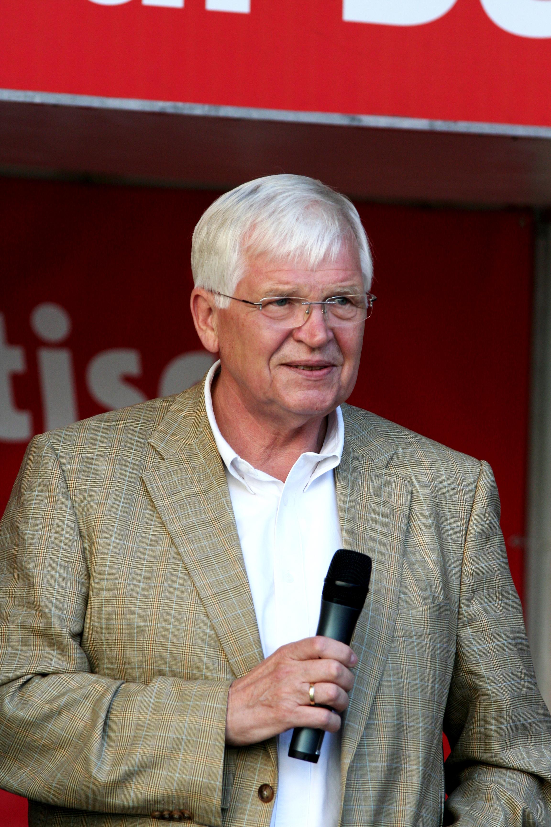 Detlef Dzembritzki (Member of the Bundestag, SPD), during an election campaign in Berlin-Tegel